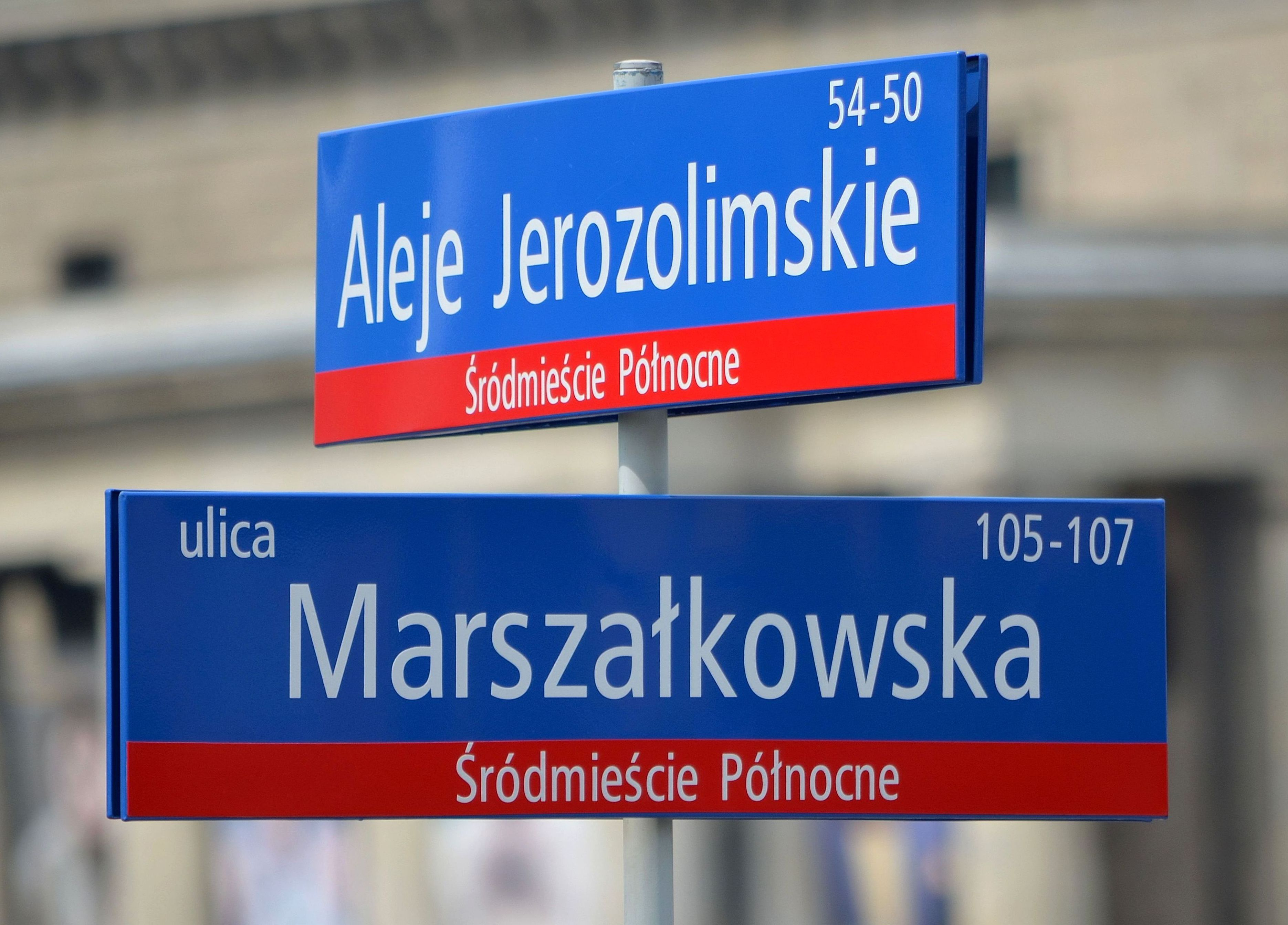 Warsaw City Information street signs at the intersection of Jerozolimskie Avenues and Marszałkowska Street